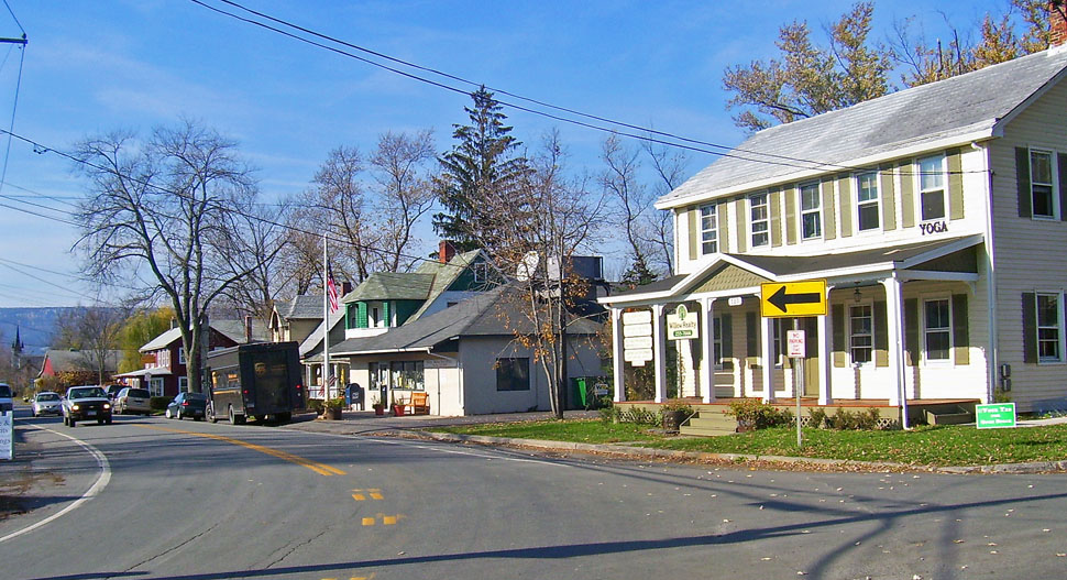 Photographed by Daniel Case 2006-11-01